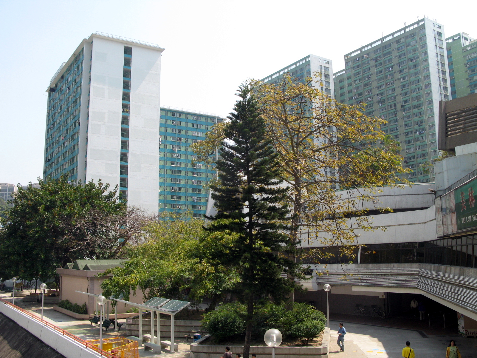 HK Mei Lam Estate Plase1: left: Mei Yeung House (Old Slab); right: Mei Tao House (Triple H)